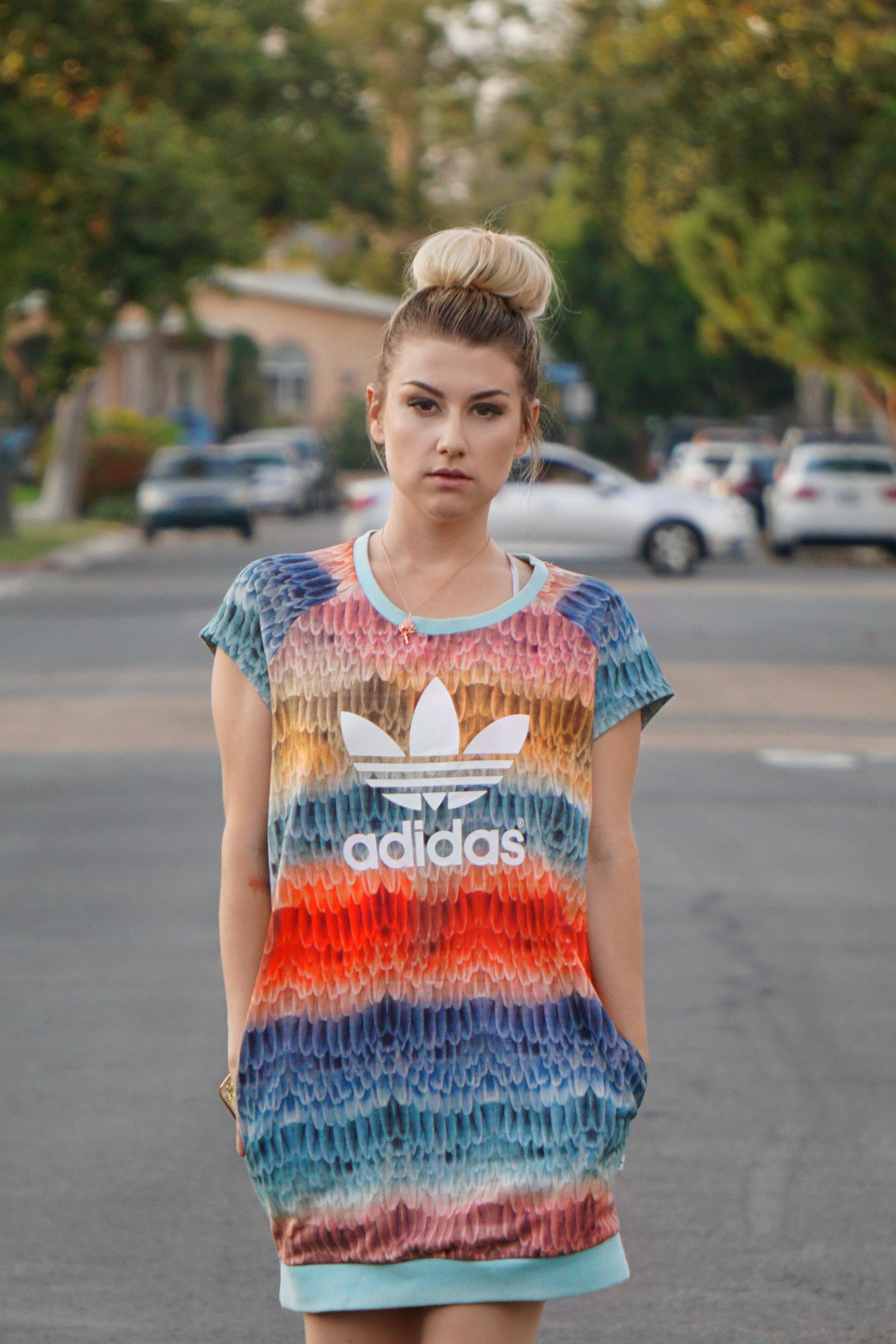 A 2017 photo of American singer-songwriter Melanie Fontana.